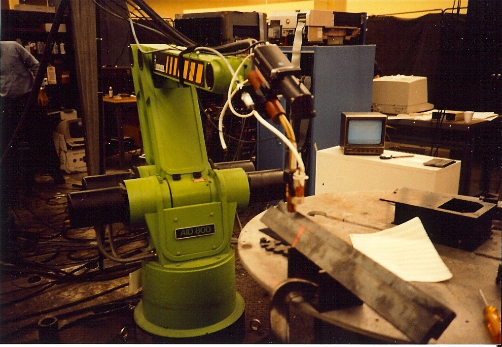 Automatix SeamTracker arc welding robot equipped with a camera and structured light source to enable it to follow a welding seam automatically. Picture taken in the Automatix development lab in Billerica, MA